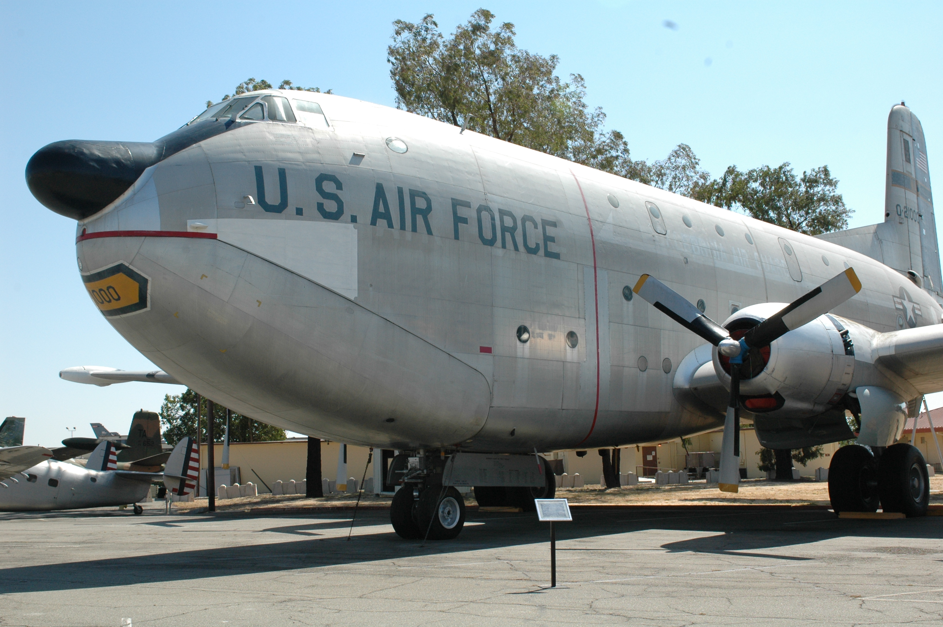 C-124C on display in the aircraft park at the Jimmy Doolittle Air & Space Museum